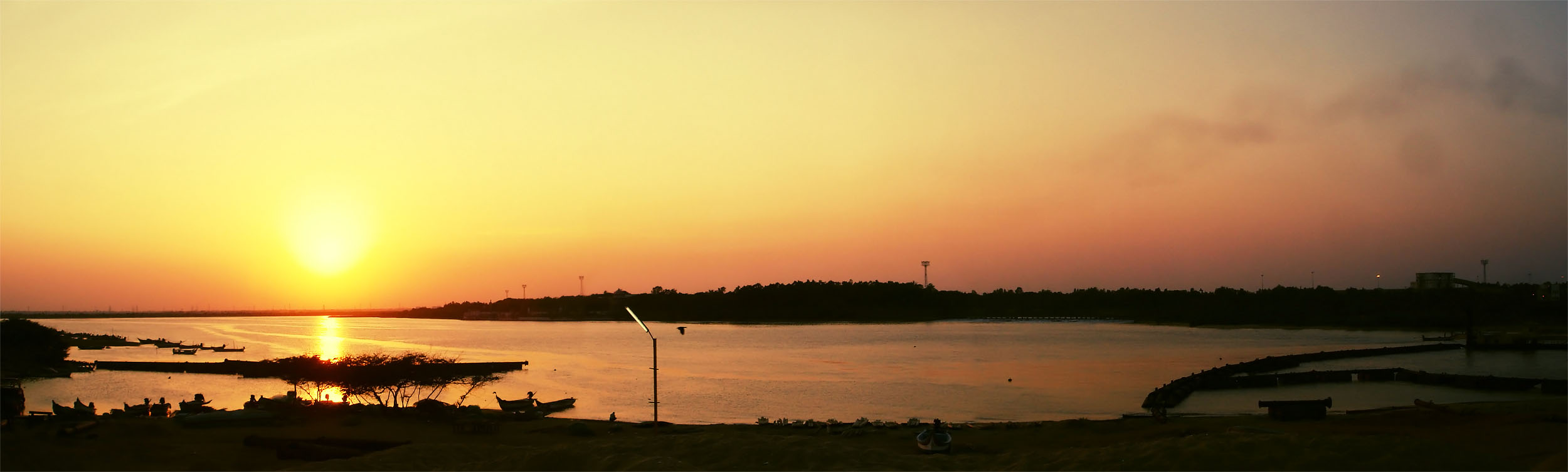 Panoramic view of the sunset over the Ennore creek, Chennai.